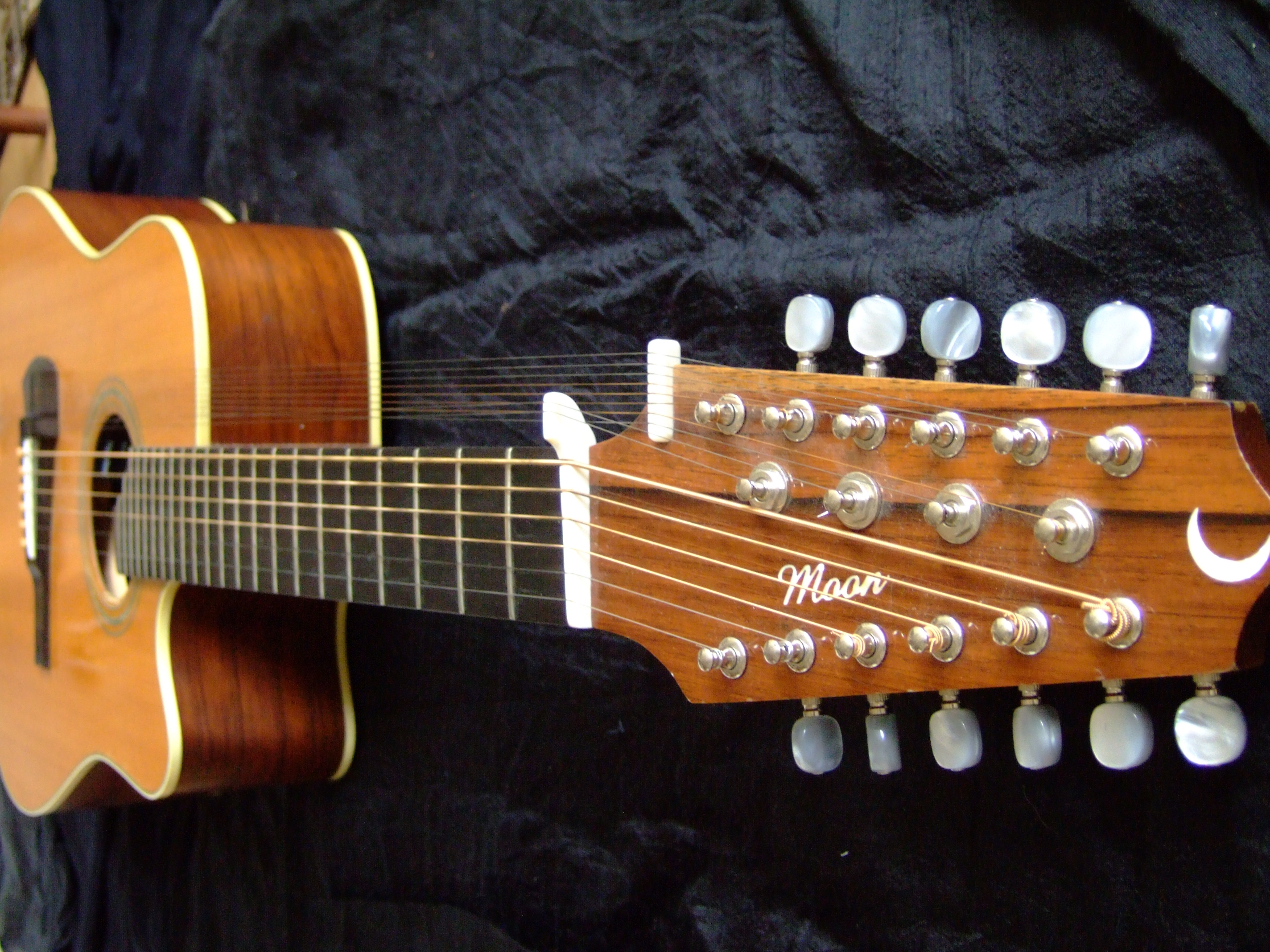 After years of trial and error, this is the final result